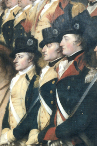 Detail of a painting by John Trumbull, Surrender of Lord Cornwallis, showing (from left to right) Colonels Alexander Hamilton, John Laurens, and Walter Stewart. Medium: oil on canvasmedium QS:P186,Q296955;P186,Q4259259,P518,Q861259 Dimensions: Height: 12 ft (365.7 cm); Width: 18 ft (548.6 cm) dimensions QS:P2048,12U3710;P2049,18U3710 Gallery: Rotunda of the US Capitol Location: Washington D.C. Note: The United States government commissioned Trumbull to paint patriotic paintings, including this piece, for them in 1817, paying for the piece in 1820.